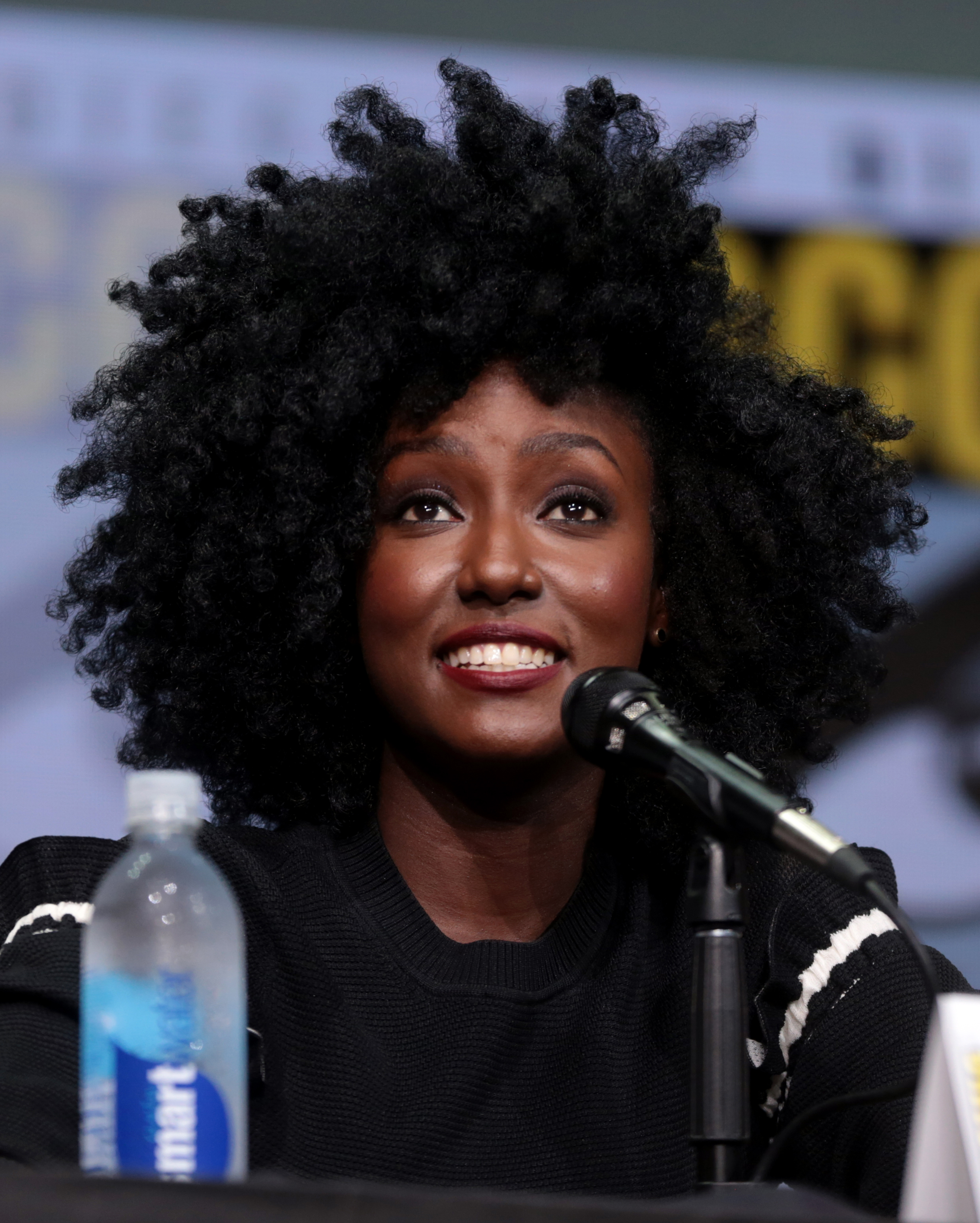 Jade Eshete speaking at the 2017 San Diego Comic-Con International in San Diego, California.